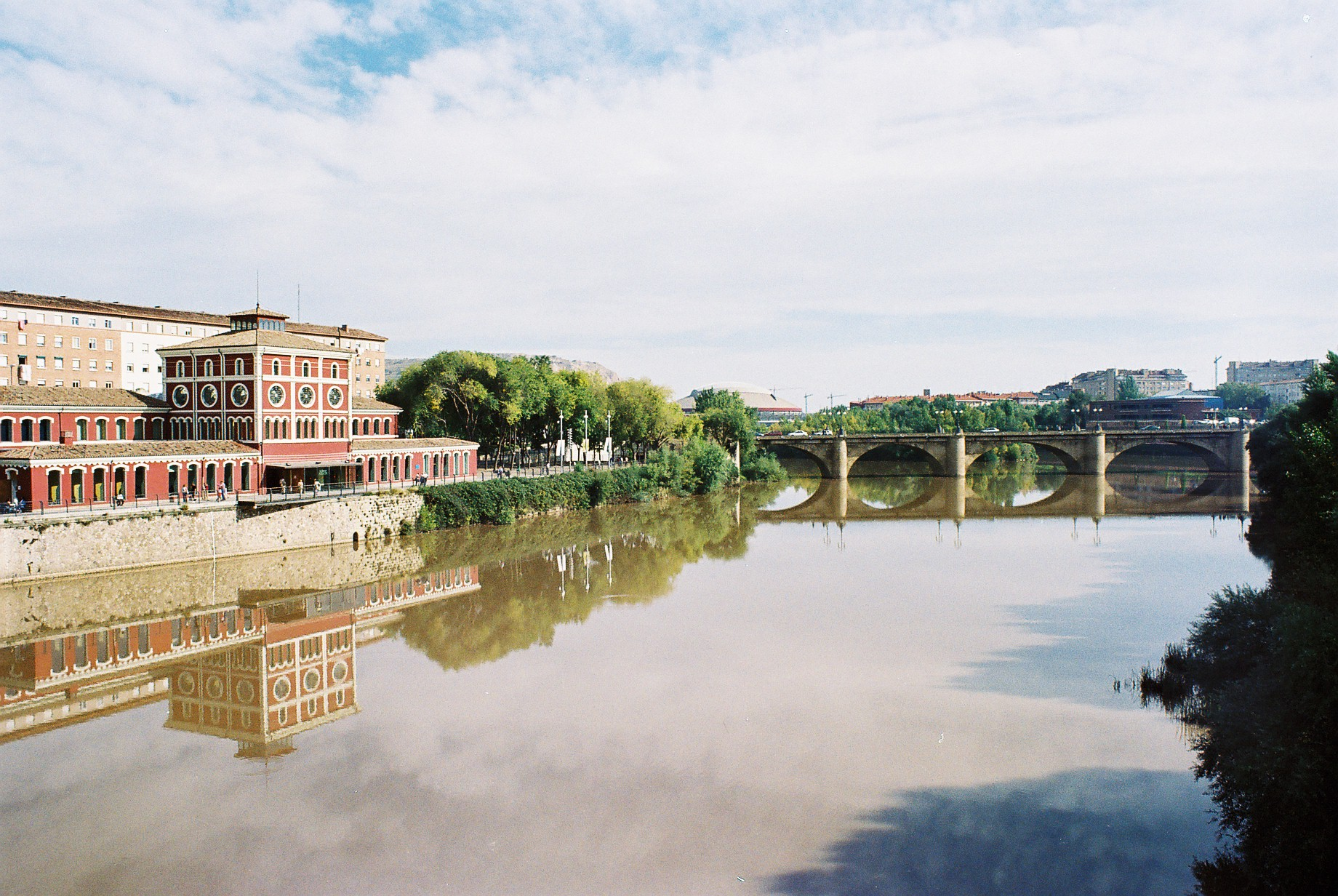 River Ebro in Logroño (Spain). It can be seen: Science Museum (on the left), Stone Bridge (right) and La Ribera bullring.